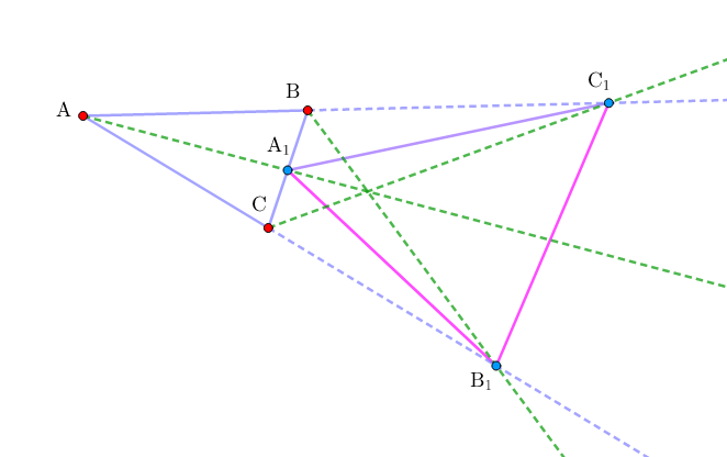 Данный треугольник получен случайным образом и не имеет особых свойств, кроме равенства сиреневых отрезков.